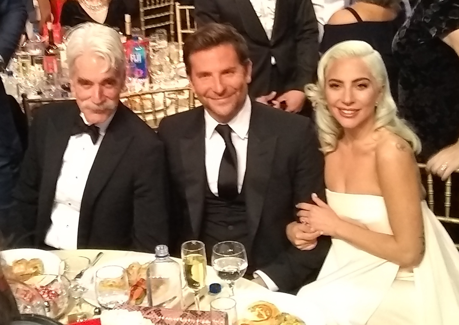 Actor Sam Elliott, Director/Actor Bradley Cooper, and Actor/Singer Lada Gaga at the “A Star is Born” table at the 24th annual Critics’ Choice Awards in Santa Monica, California on January 13th, 2019.